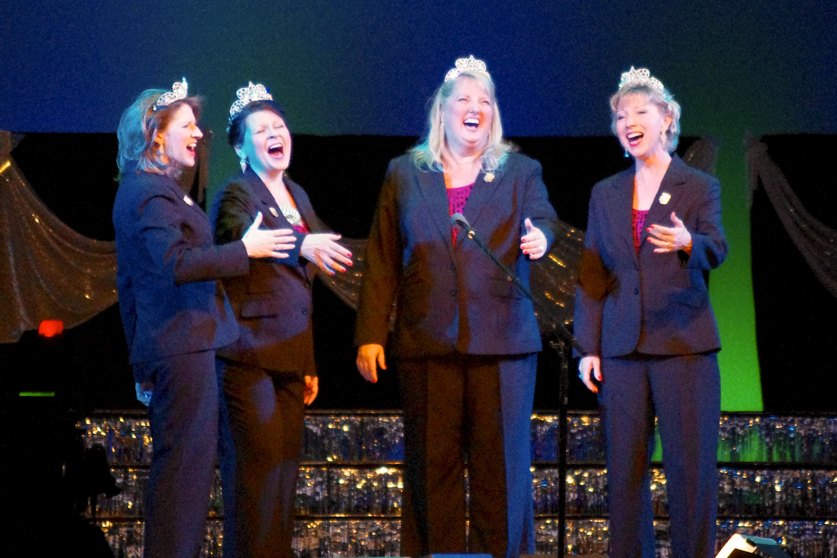 Zing quartet performing at the 2011 Sweet Adelines International "coronet club show" in Houston, Texas